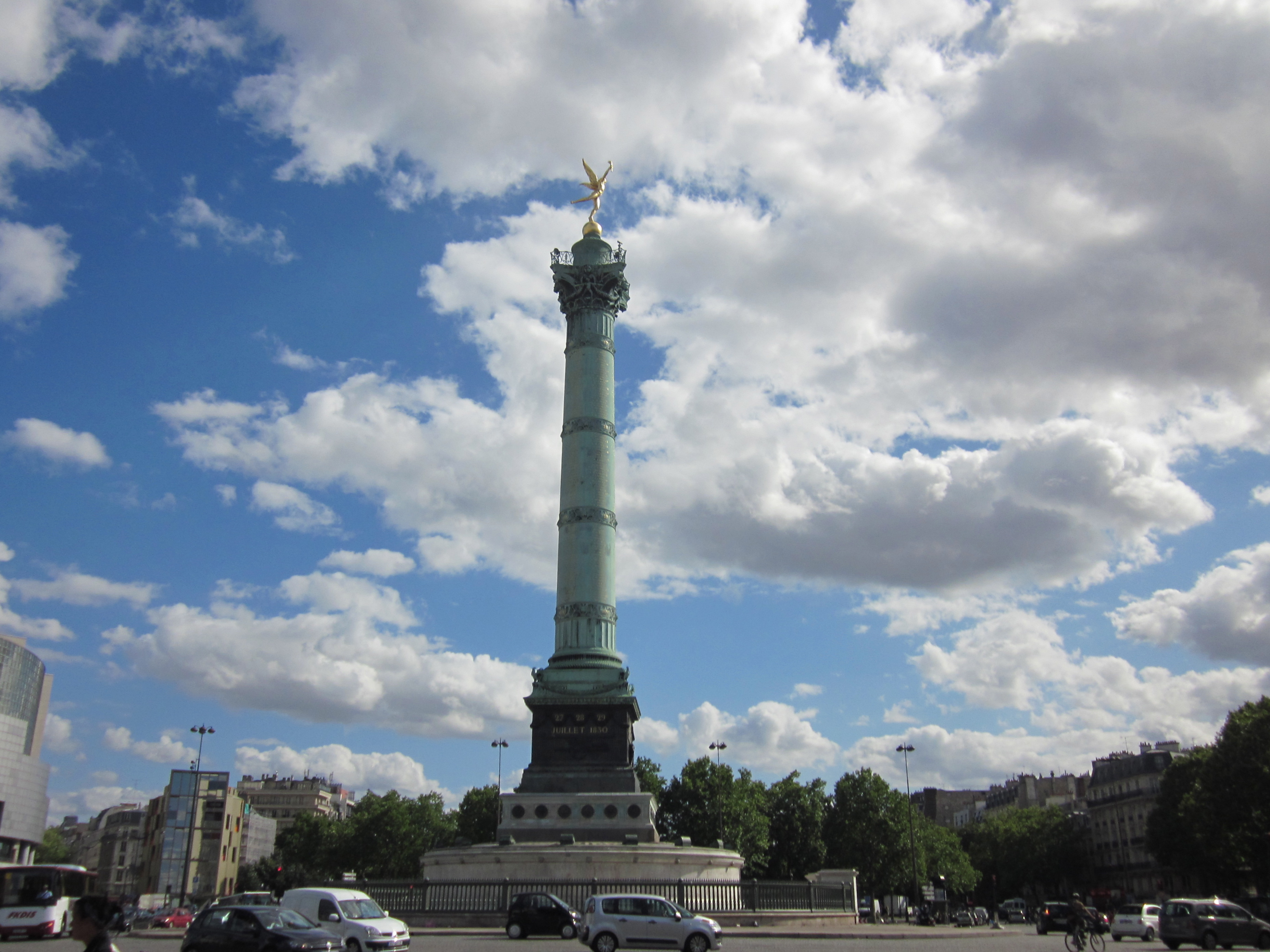 Place de la Bastille with the July Column